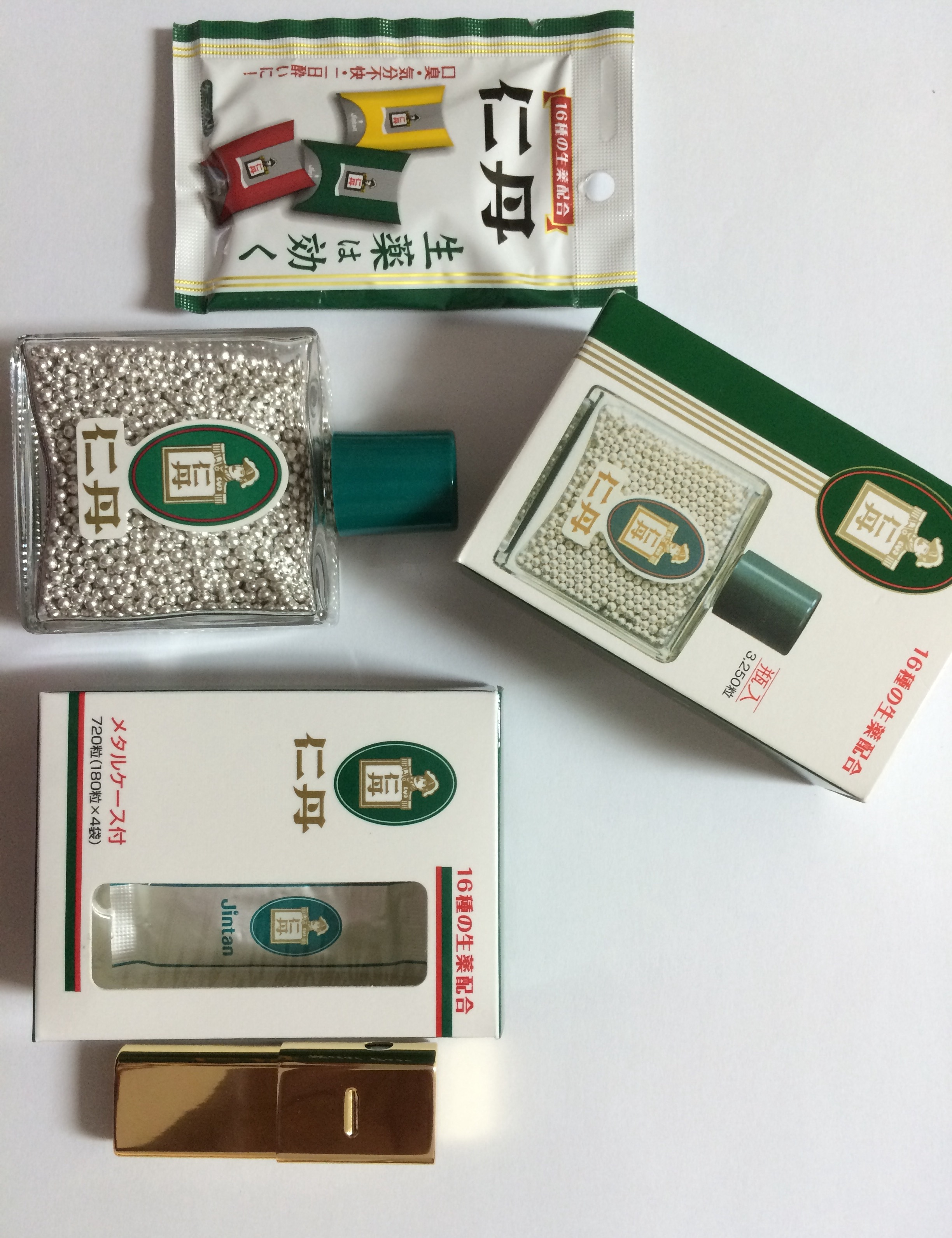 This is an image of various Jintan packages purchased at Tokyo Station on December 2014